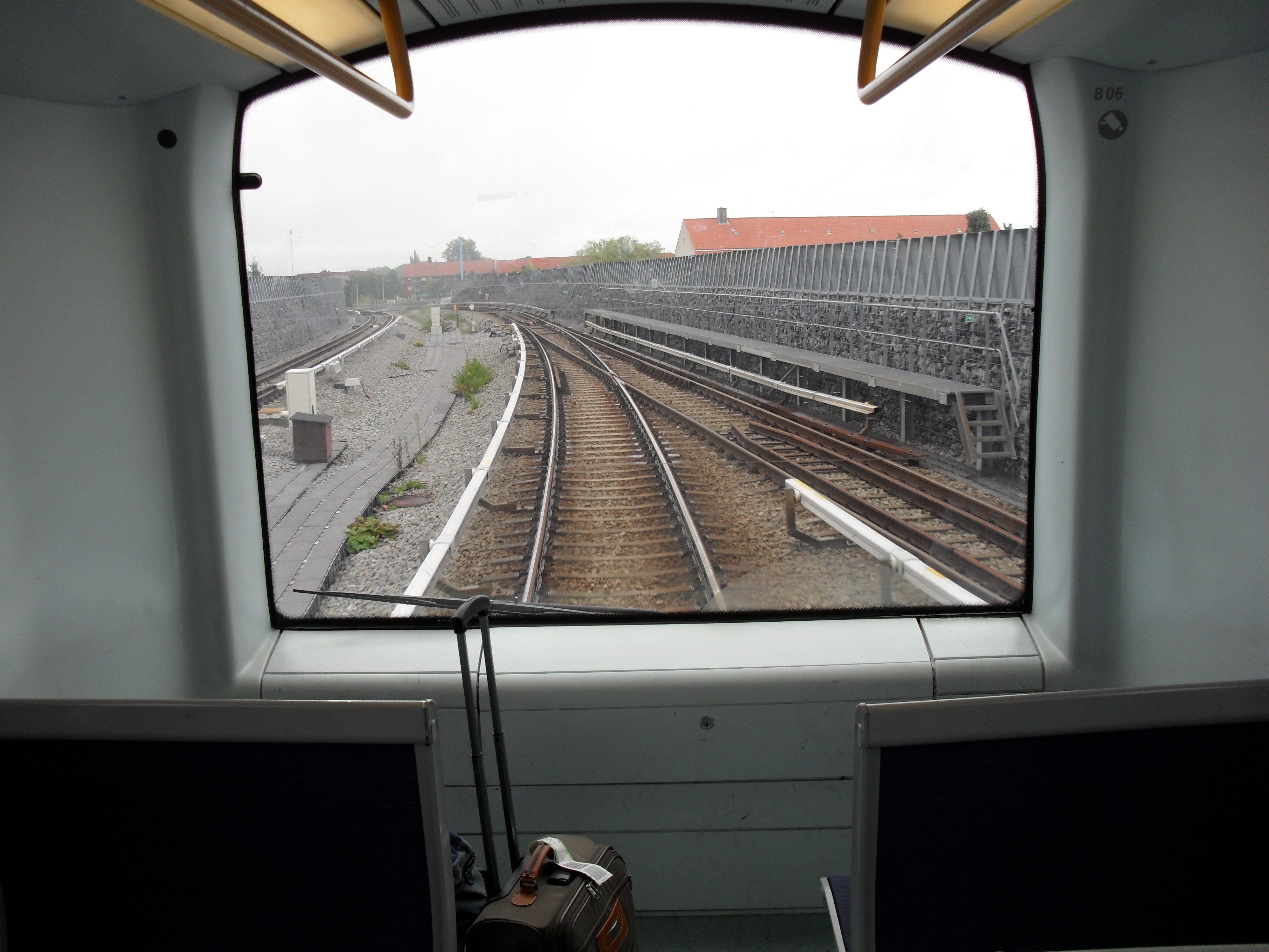 View out of the "metro cabin" in front of a metro train in Copenhagen, Denmark. Leaving airport station. The copenhagen metro is one of the most modern metros in the world and runs automatically without drivers.